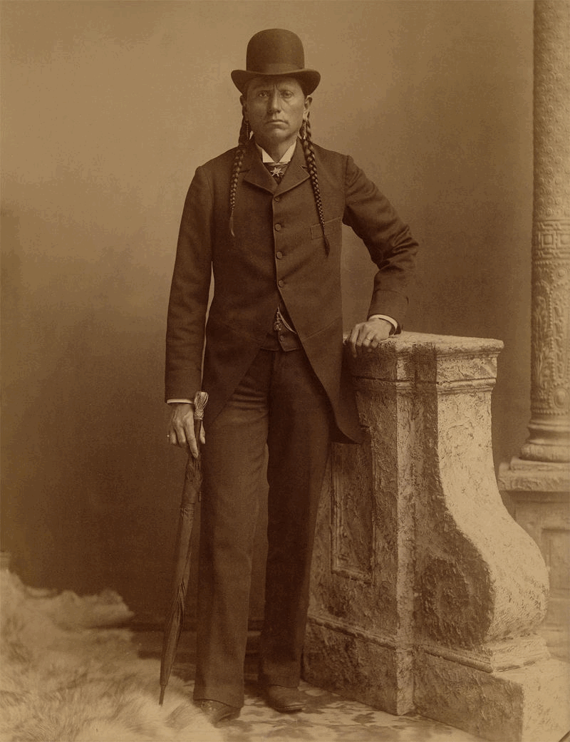 The photograph of Comanche Indian Chief Quanah Parker. (Description for first version below:) of my own scanning, from my image files, and no copyright is known. I know it to be in books and other respectable web sites (verification and other version here [1]